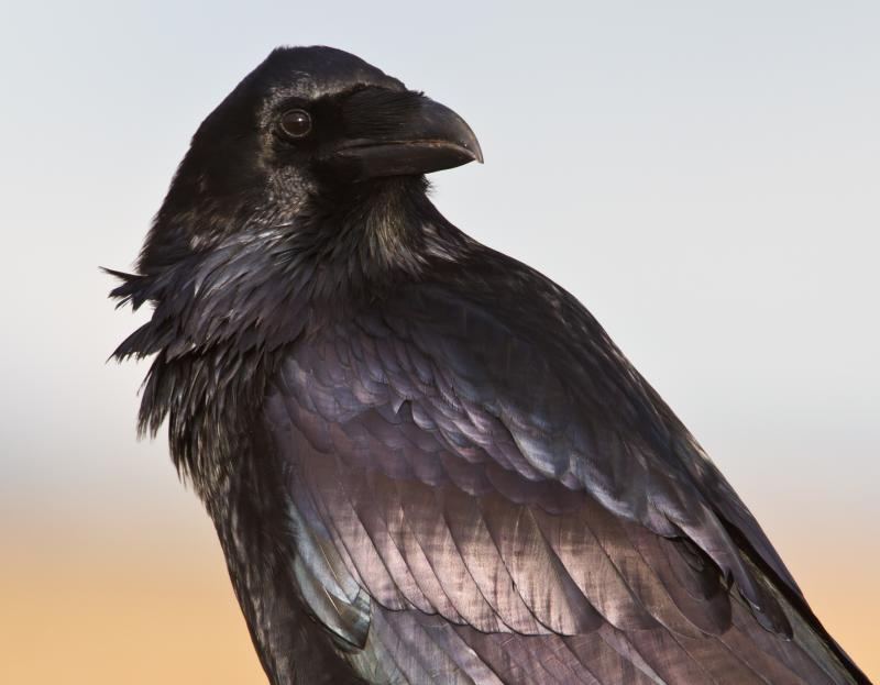 Common Raven (C. corax varius) in Stokkseyri, Iceland.